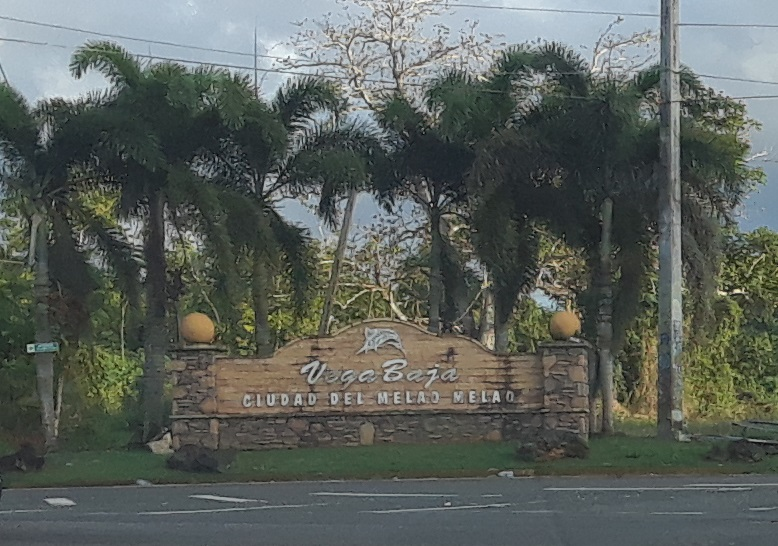 Vega Baja, Puerto Rico